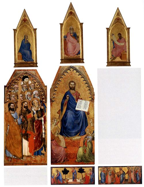 The Milan-London-Turin-Paris Polyptych. Reconstruction.